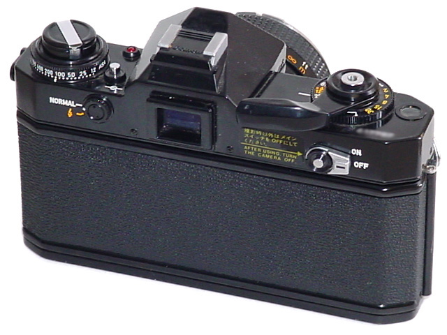 Rear view of a Canon EF 35mm SLR